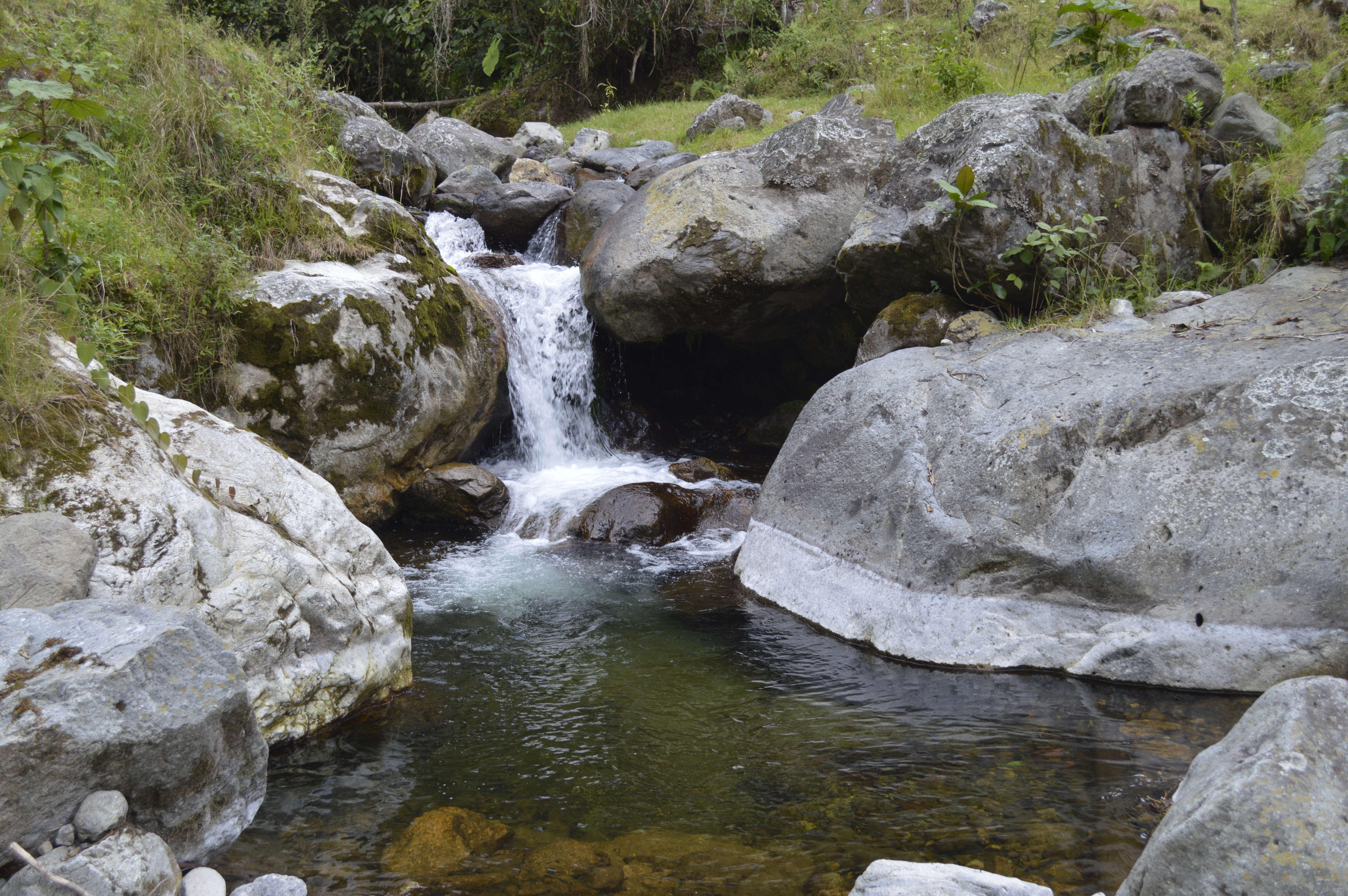 Creek Vereda Sanguino, municipality of Salazar de las Palmas, fed by waters originating in the Santurban-Salazar Nature Park